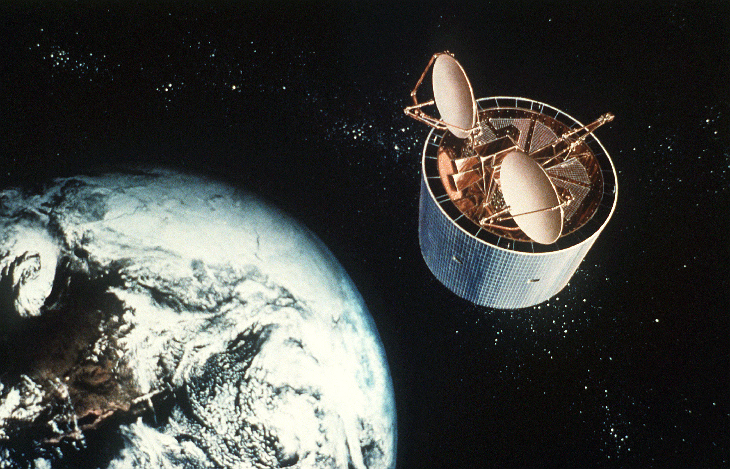 An artists concept of the NATO Defense Satellite Communications System II satellite in orbit, with the earth in the background.